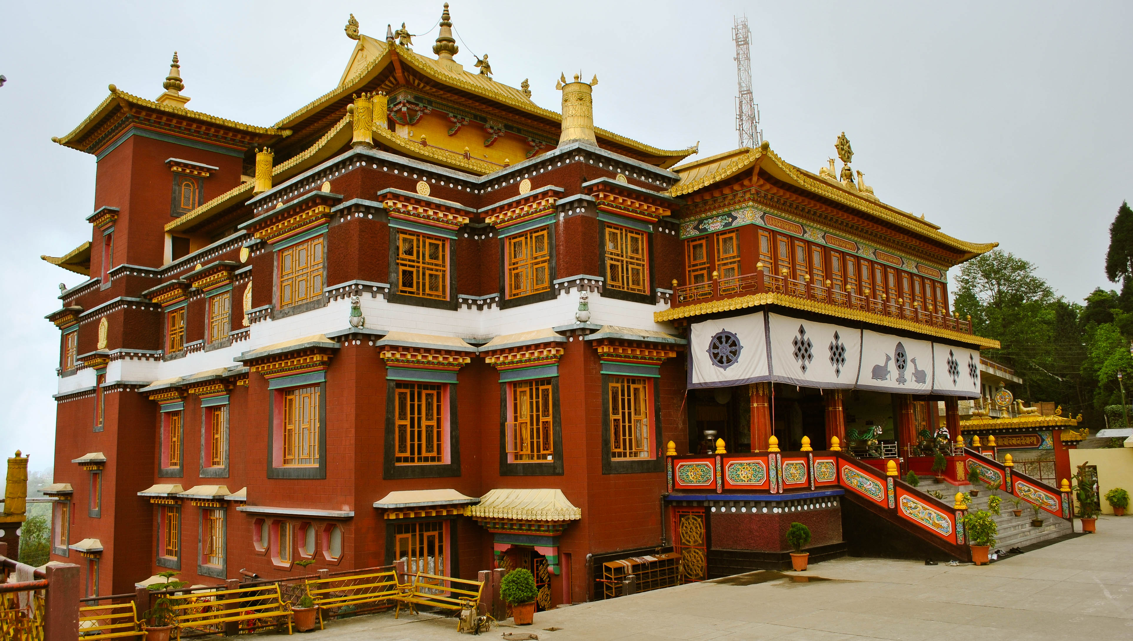 Bokar Monastery, Mirik